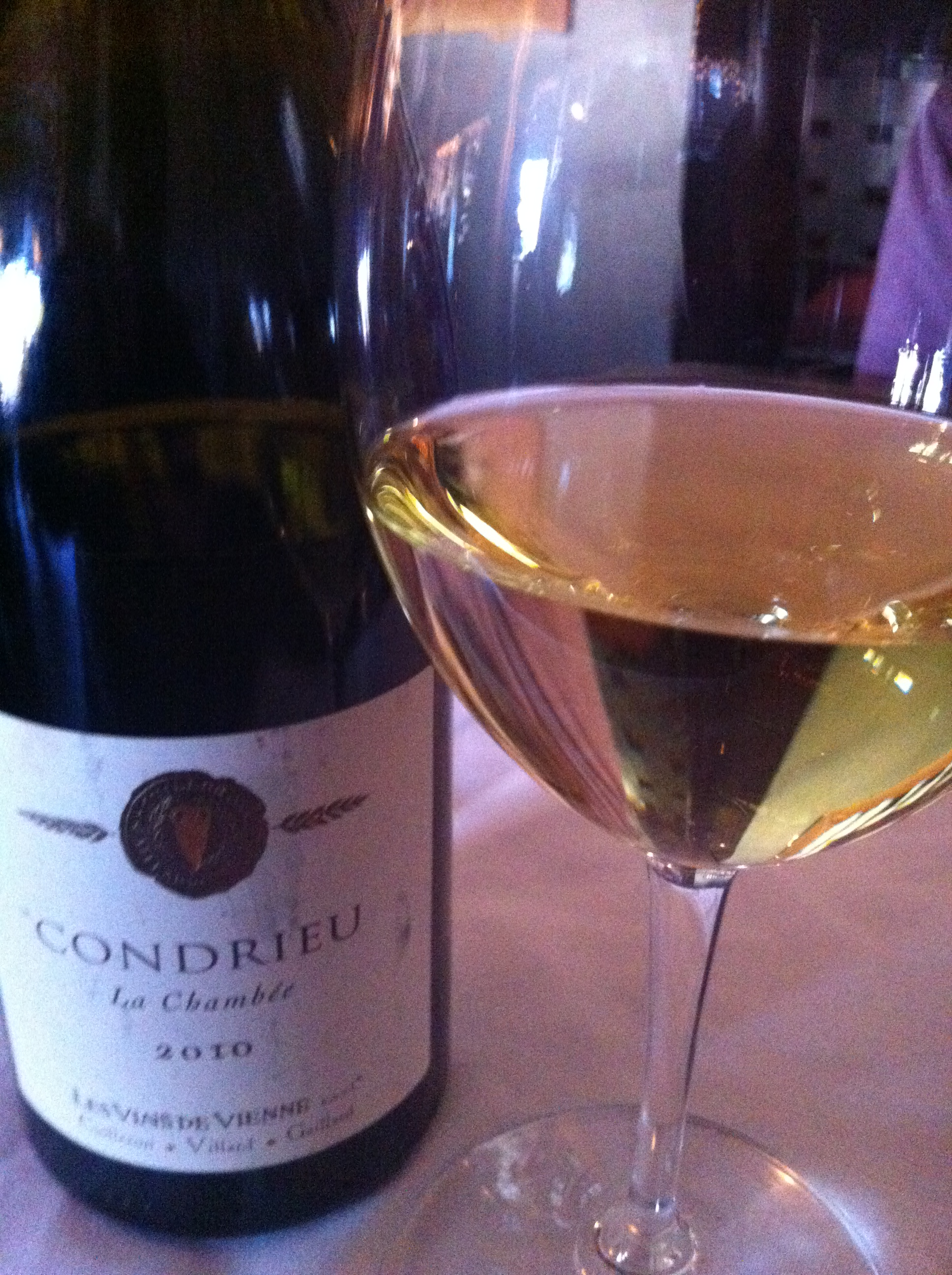 French Viognier from the northern Rhone wine region of Condrieu